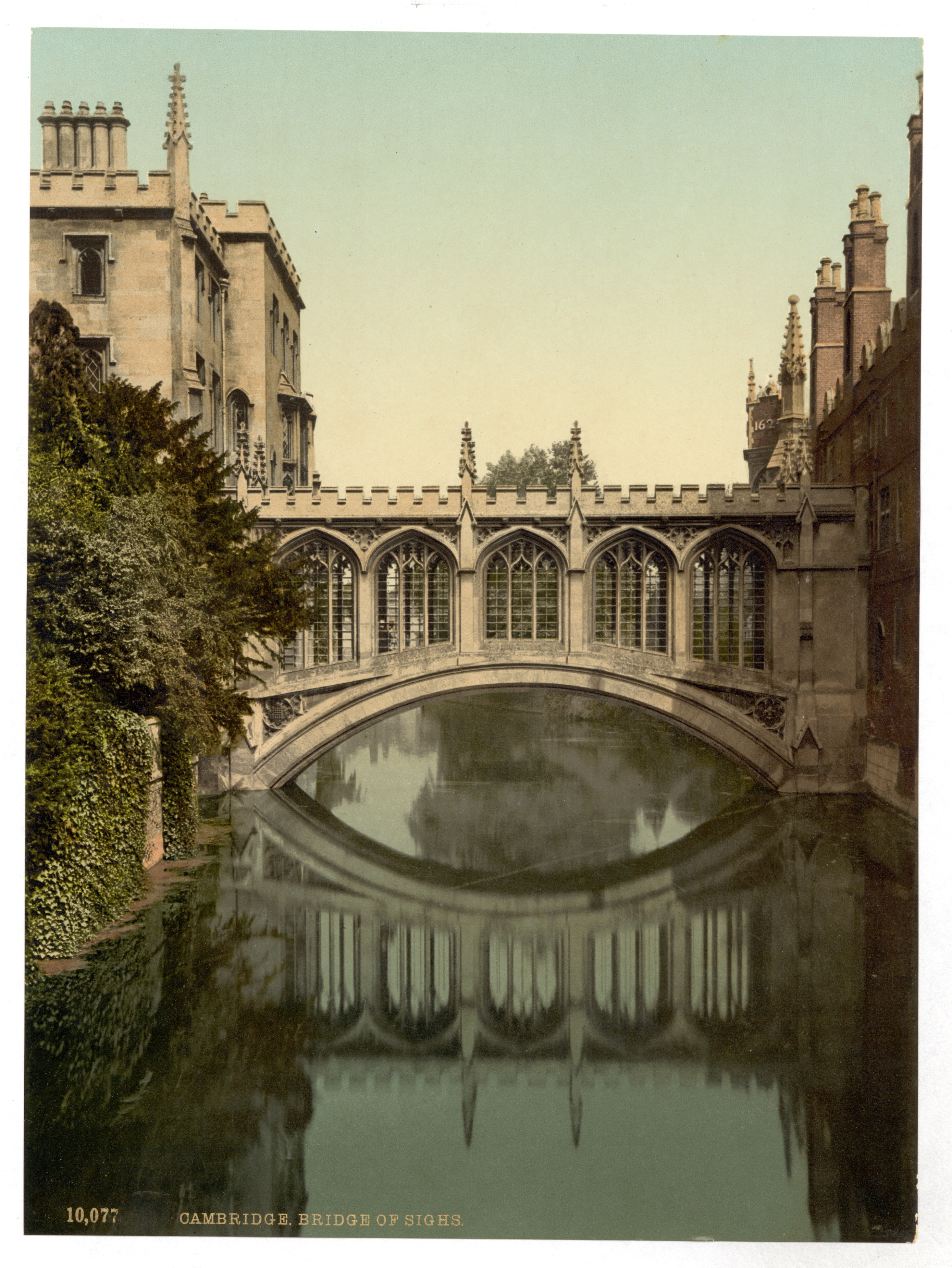 Forms part of: Views of the British Isles, in the Photochrom print collection.; More information about the Photochrom Print Collection is available at Print no. "10077".; Title from the Detroit Publishing Co., Catalogue J-foreign section, Detroit, Mich. : Detroit Publishing Company, 1905.